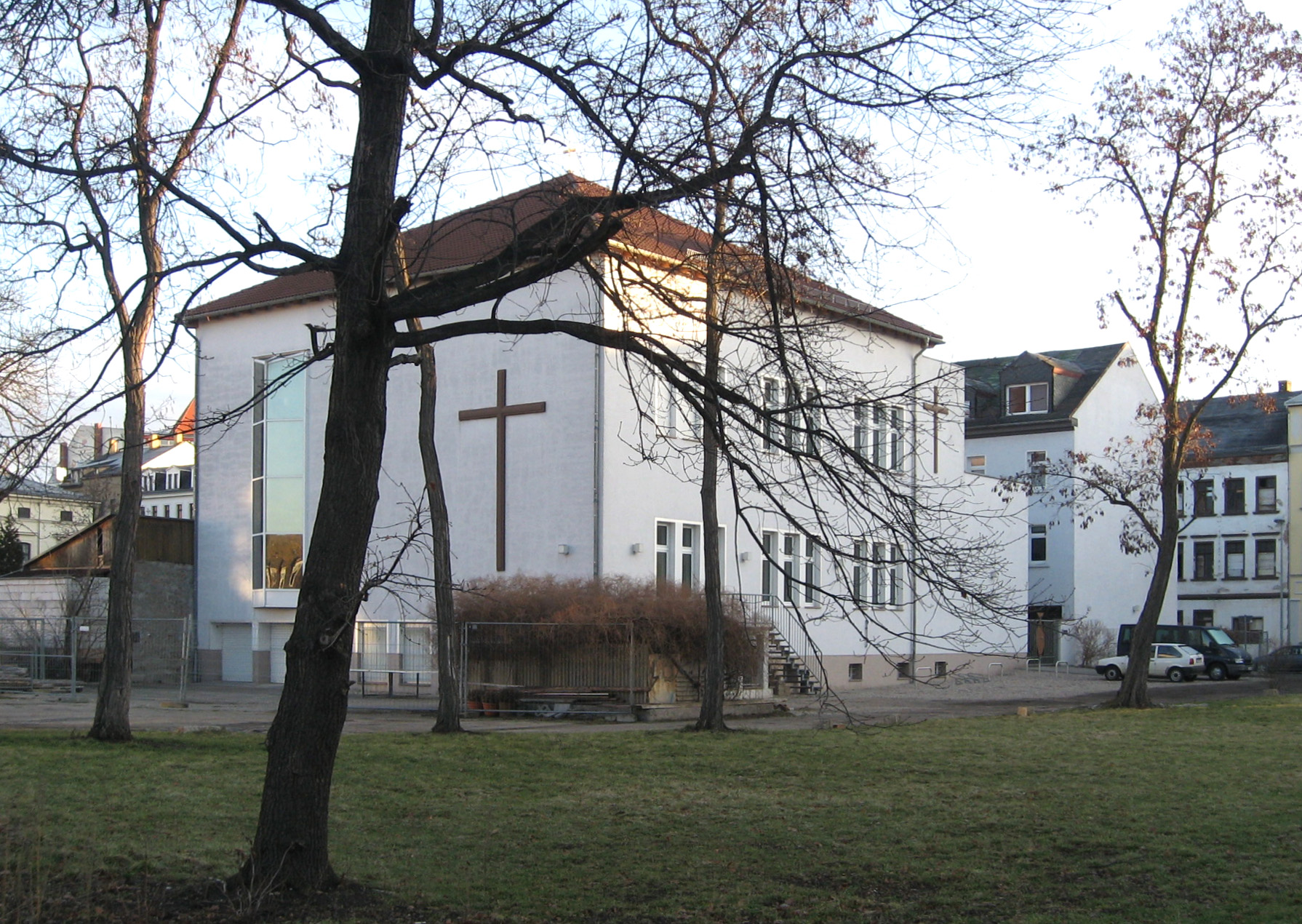 Community center of the Protestant community ELIM Leipzig, Hans-Poeche-Strasse 11